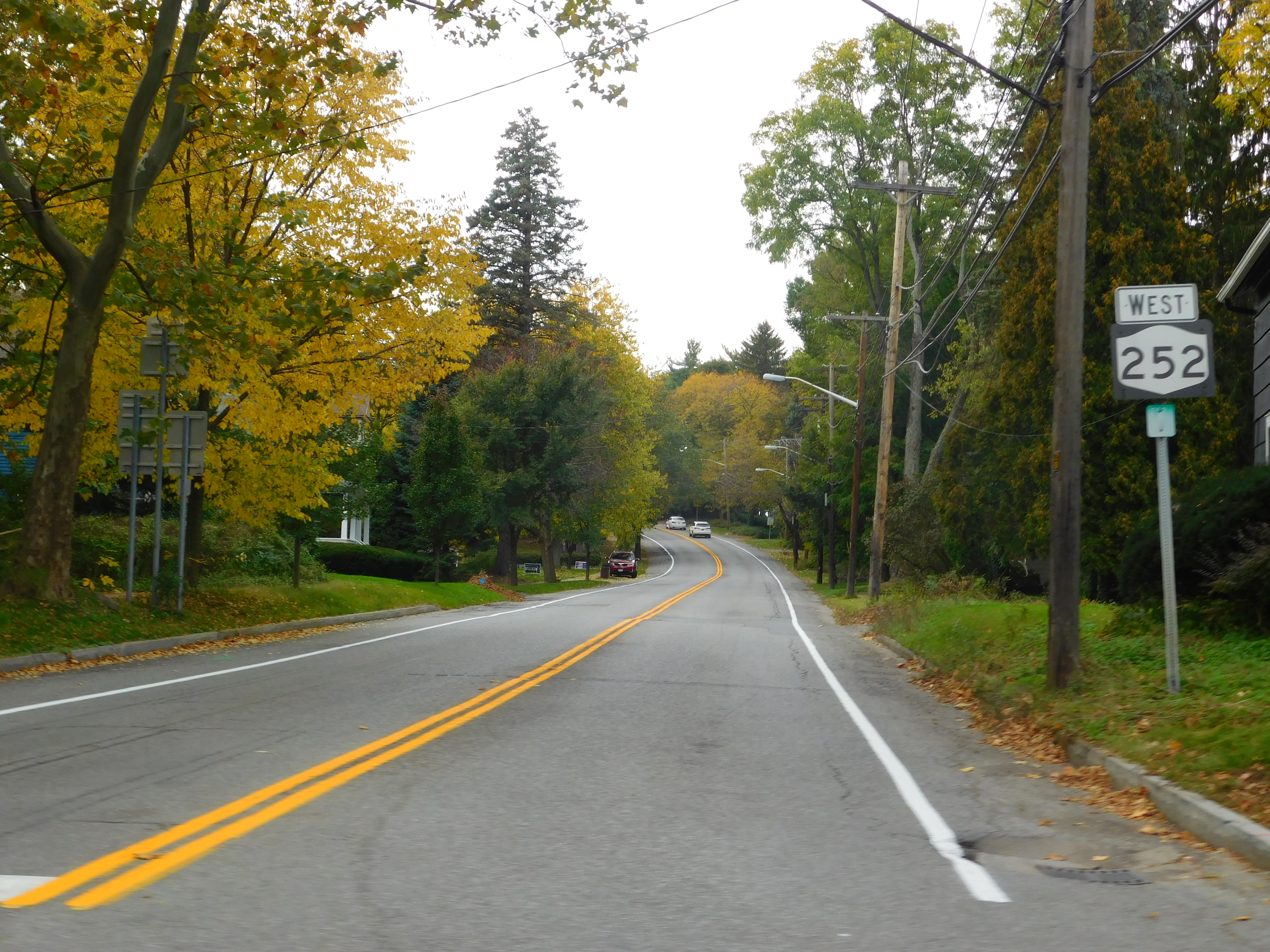 NY 252 in Pittsford town, New York.